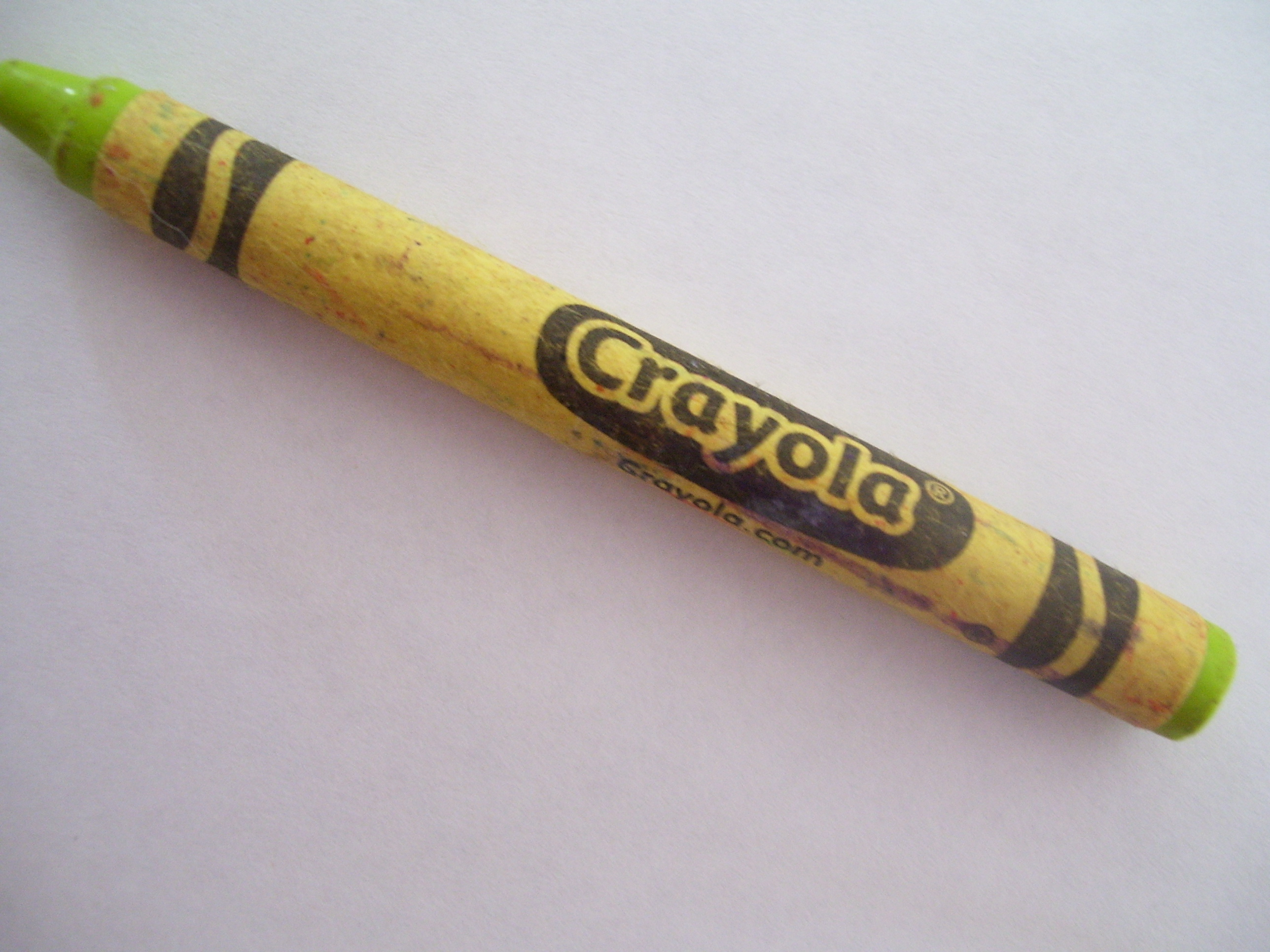 This is my own work.i took it myself,so feel free to use it.